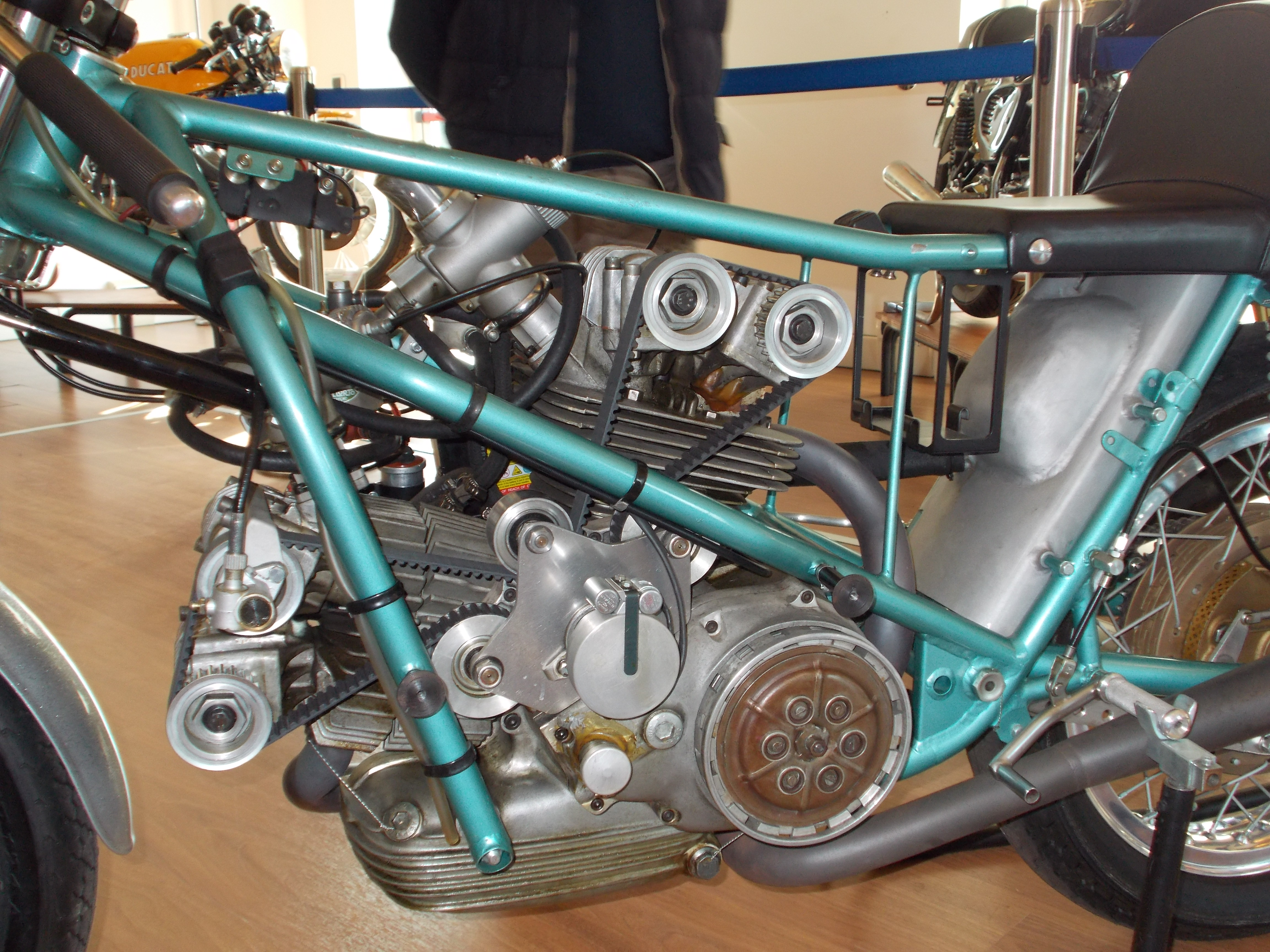 Ducati 500 GP prototype built by Renato Armaroli in 1972, with a belt driven DOHC four-valve "non-desmodromic" L-twin. This bike is from Collezione Mario Sassi and was shown naked during Misano Classic Weekend (18-20 October 2013)